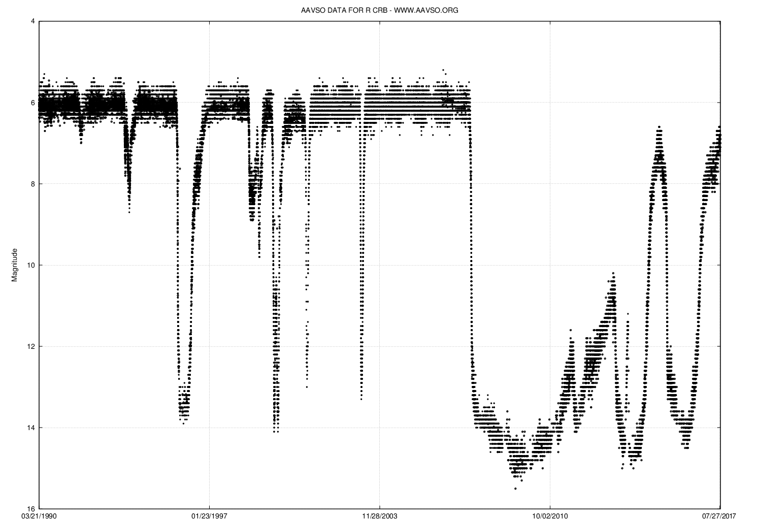 Light curve of R Coronae Borealis from 1990 to 2017, created using the AAVSO light curve generator tool.